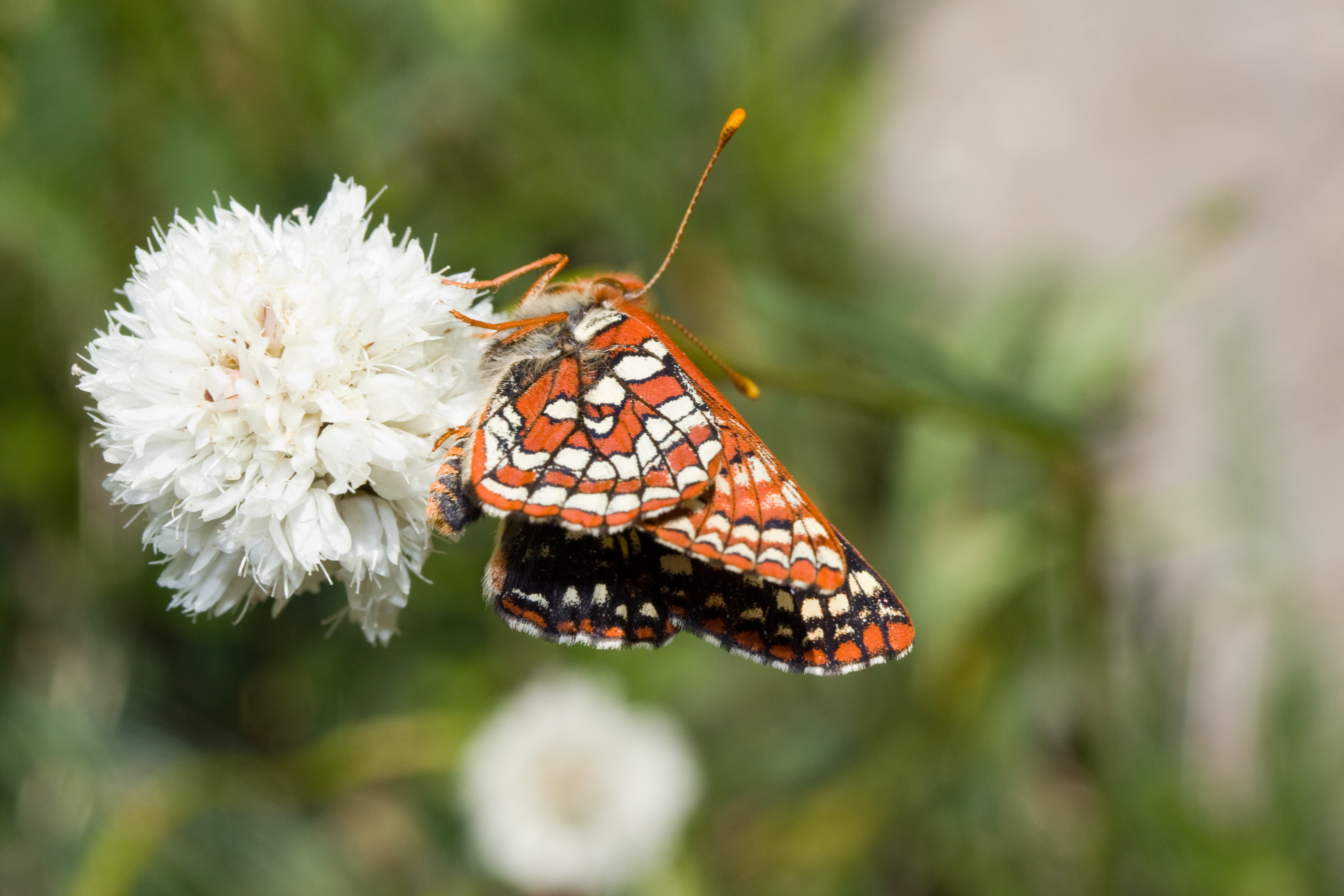 Edith's Checkerspot